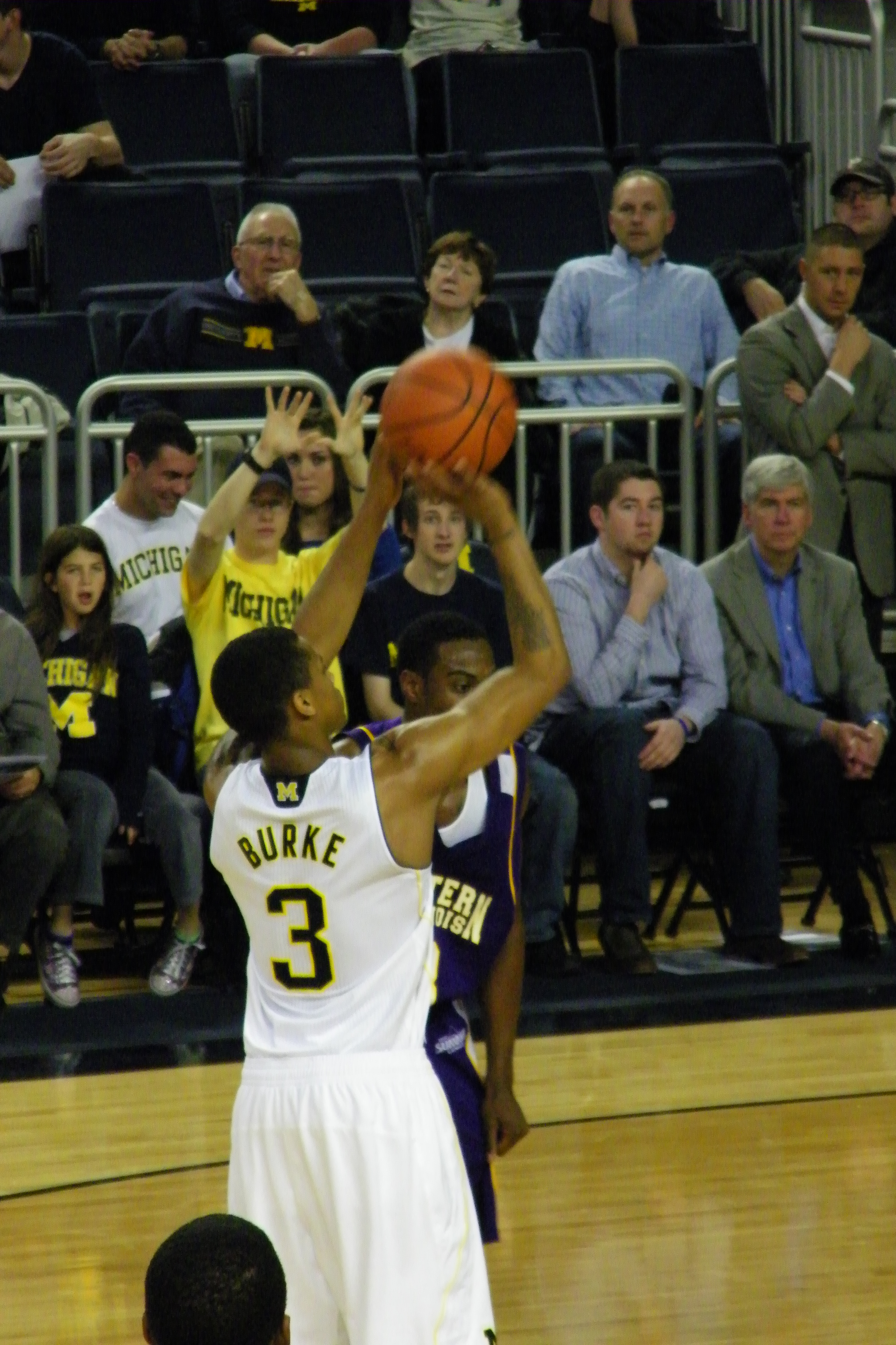 Trey Burke shooting a free throw on November 17, 2011. Governor Rick Snyder of Michigan is seated at the far right.